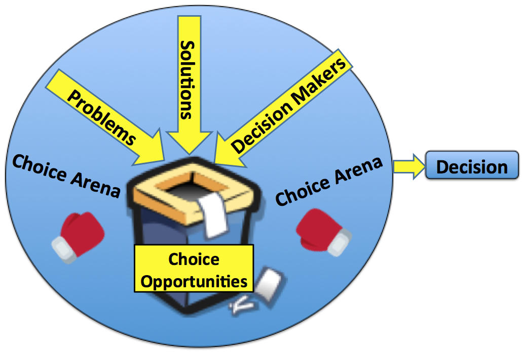 Garbage Can Model Choice Arena